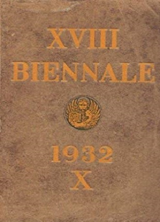 Catalogue XVII Venice Biennale 1932